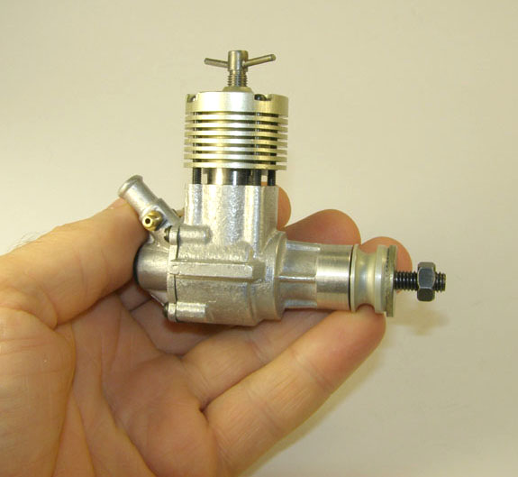 USSR model engine RYTM